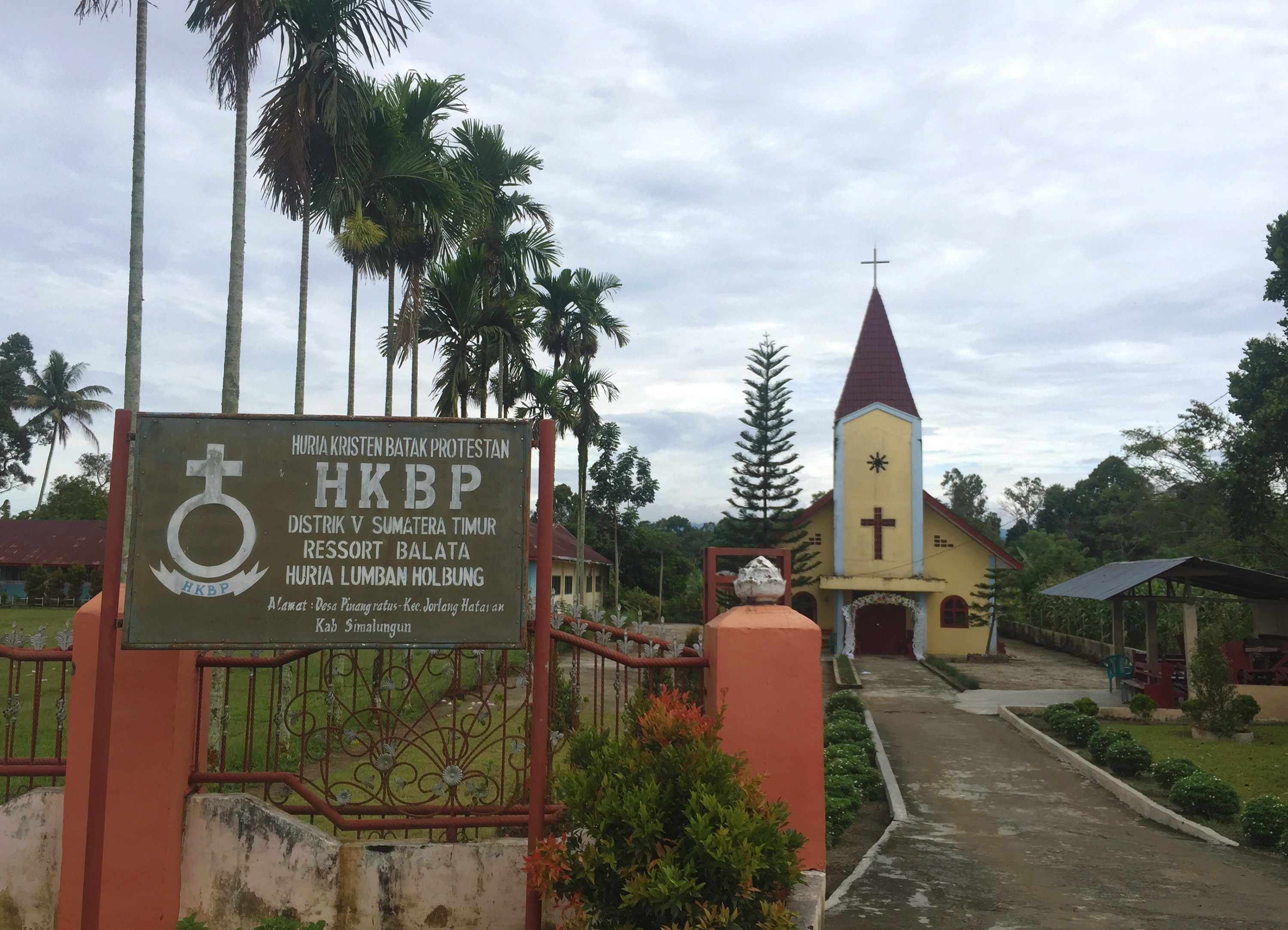 HKBP Lumban Holbung, church in Pagar Pinang, Jorlang Hataran, Simalungun